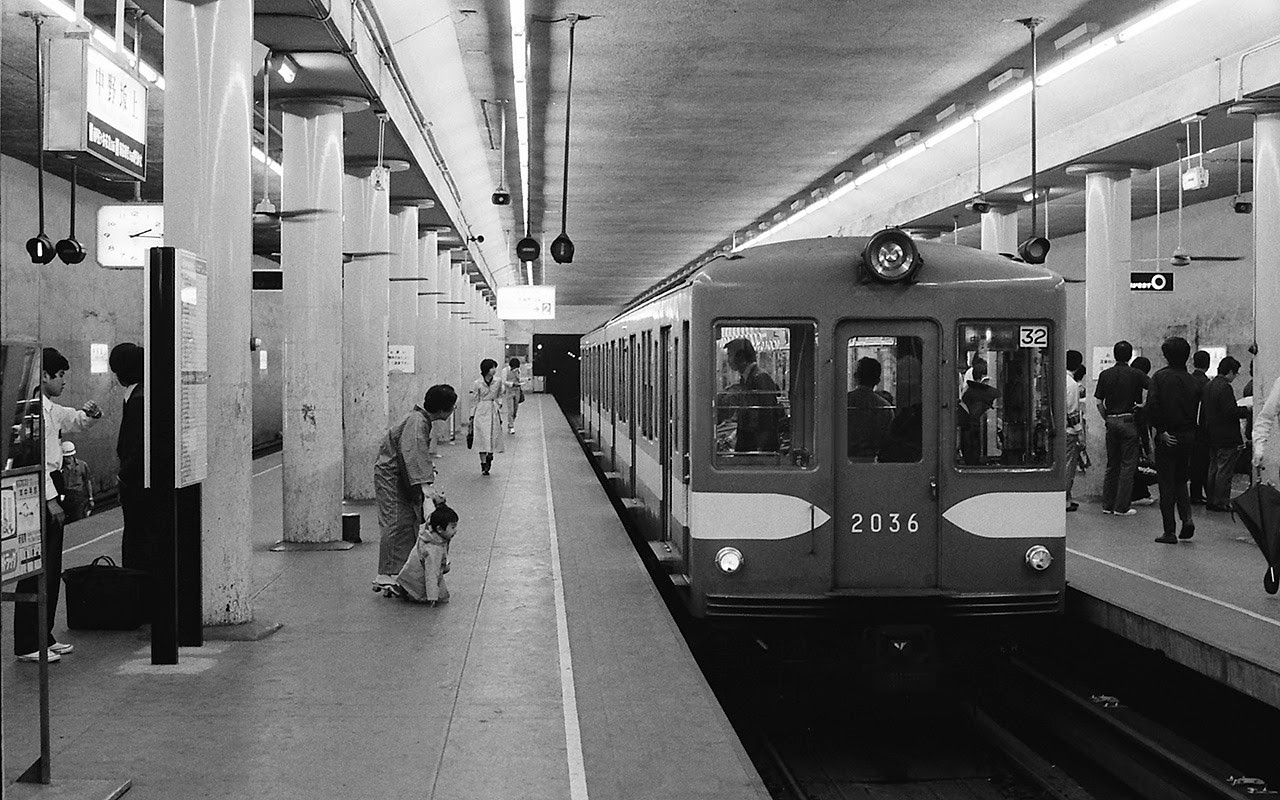 A TRTA 2000 series EMU at Nakano-sakaue Station on the Marunouchi Line Honancho Branch